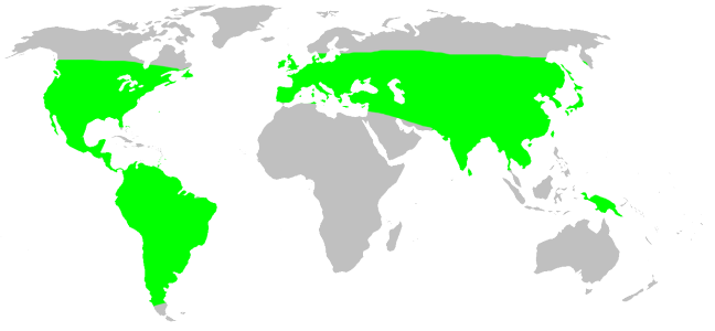 Titanoecidae habitat distribution, drawn after Platnick: World Spider Catalog 7.0. This is not at all a precise rendering of the distribution! If you have better information, please replace this map, or send me the info, and i will redraw it.